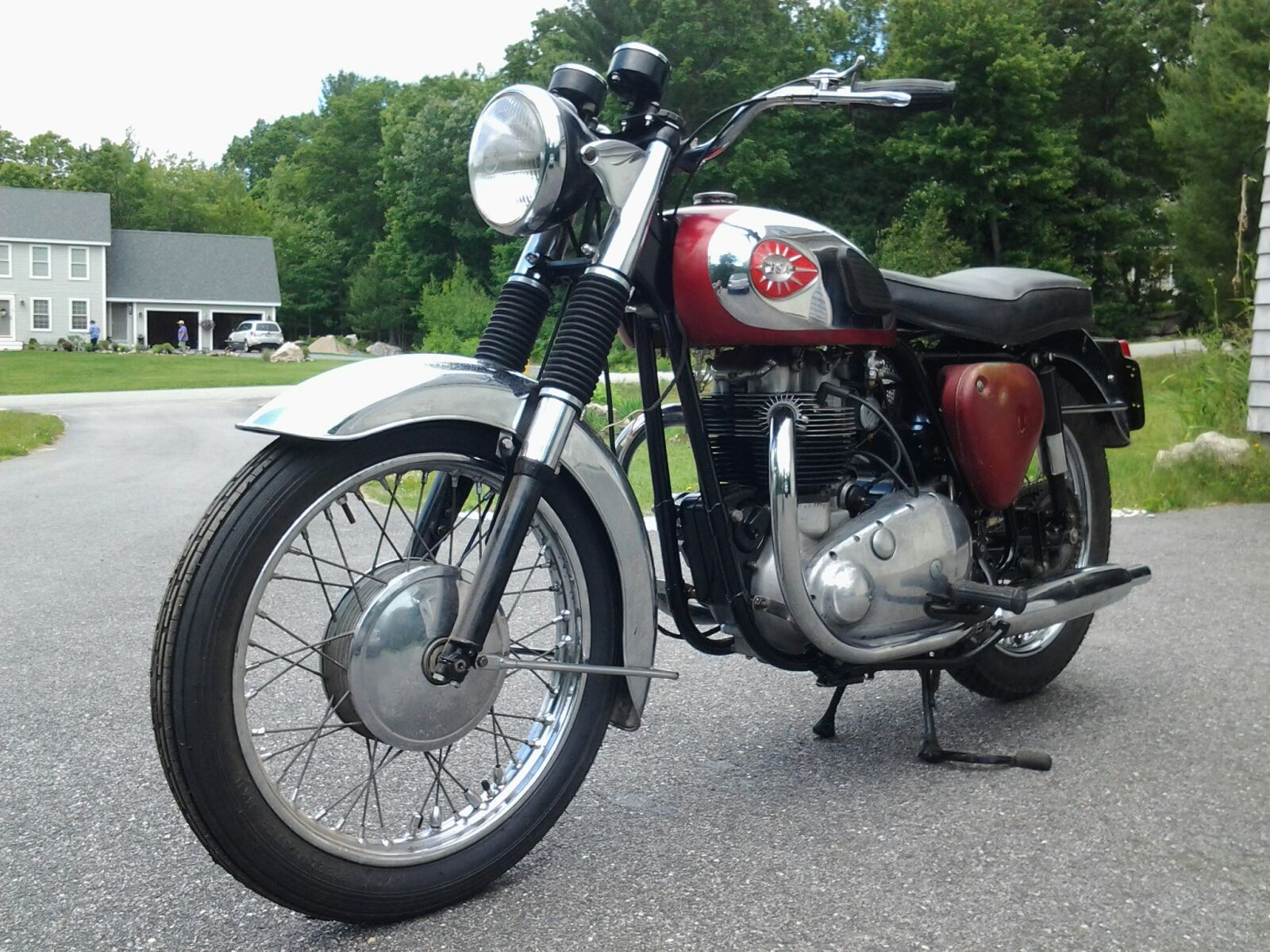 My awesome motorcycle in my driveway